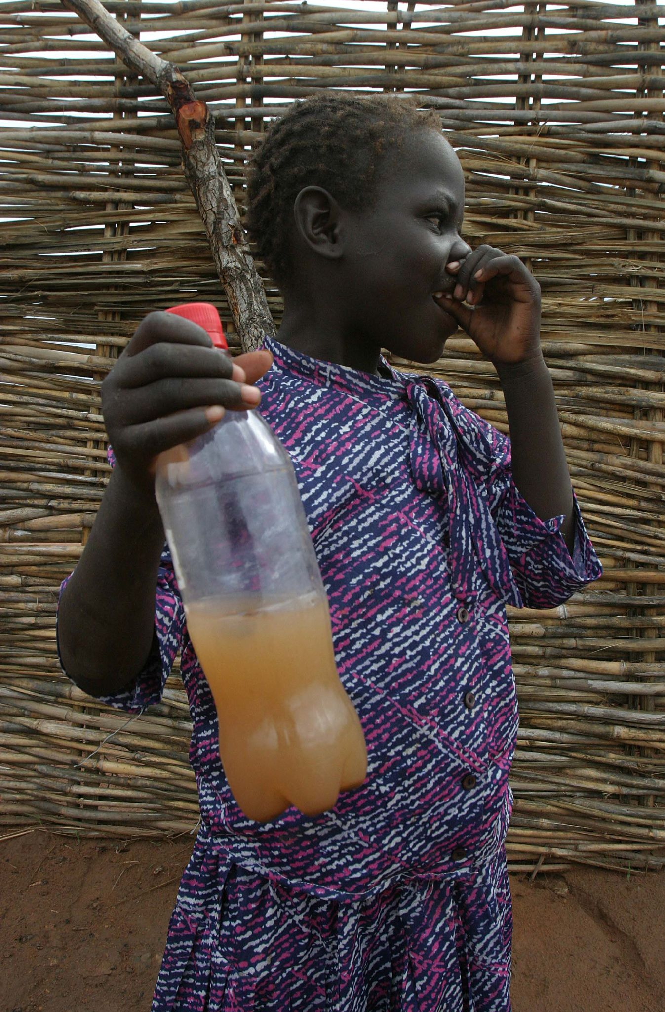 A little girl with her bottle of water is coming back from the well, Boromata, northeastern CAR, close to Chad. The incidence of diarrhea is extremely high amongst children under 5.